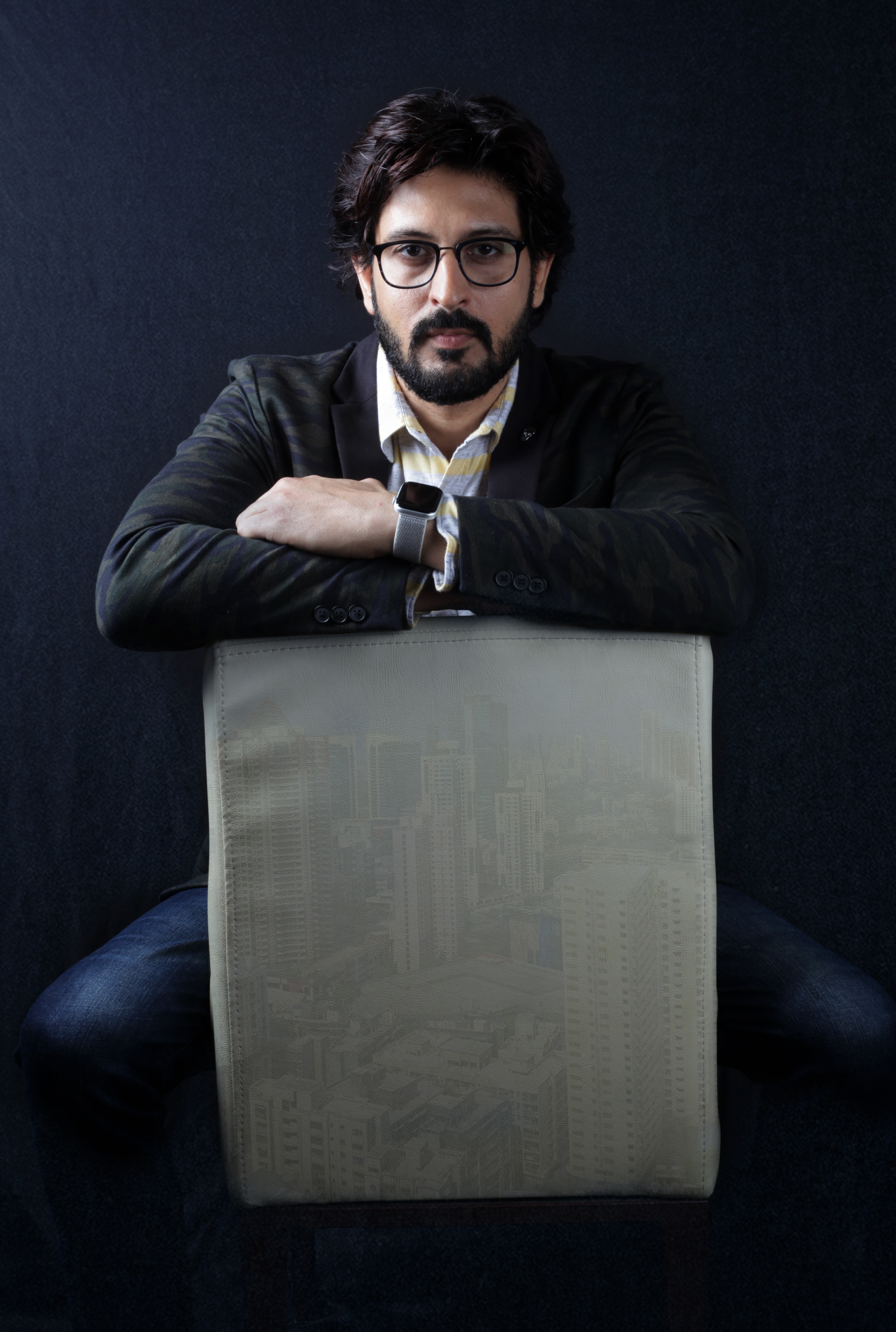 This pictures was taken during web series look test